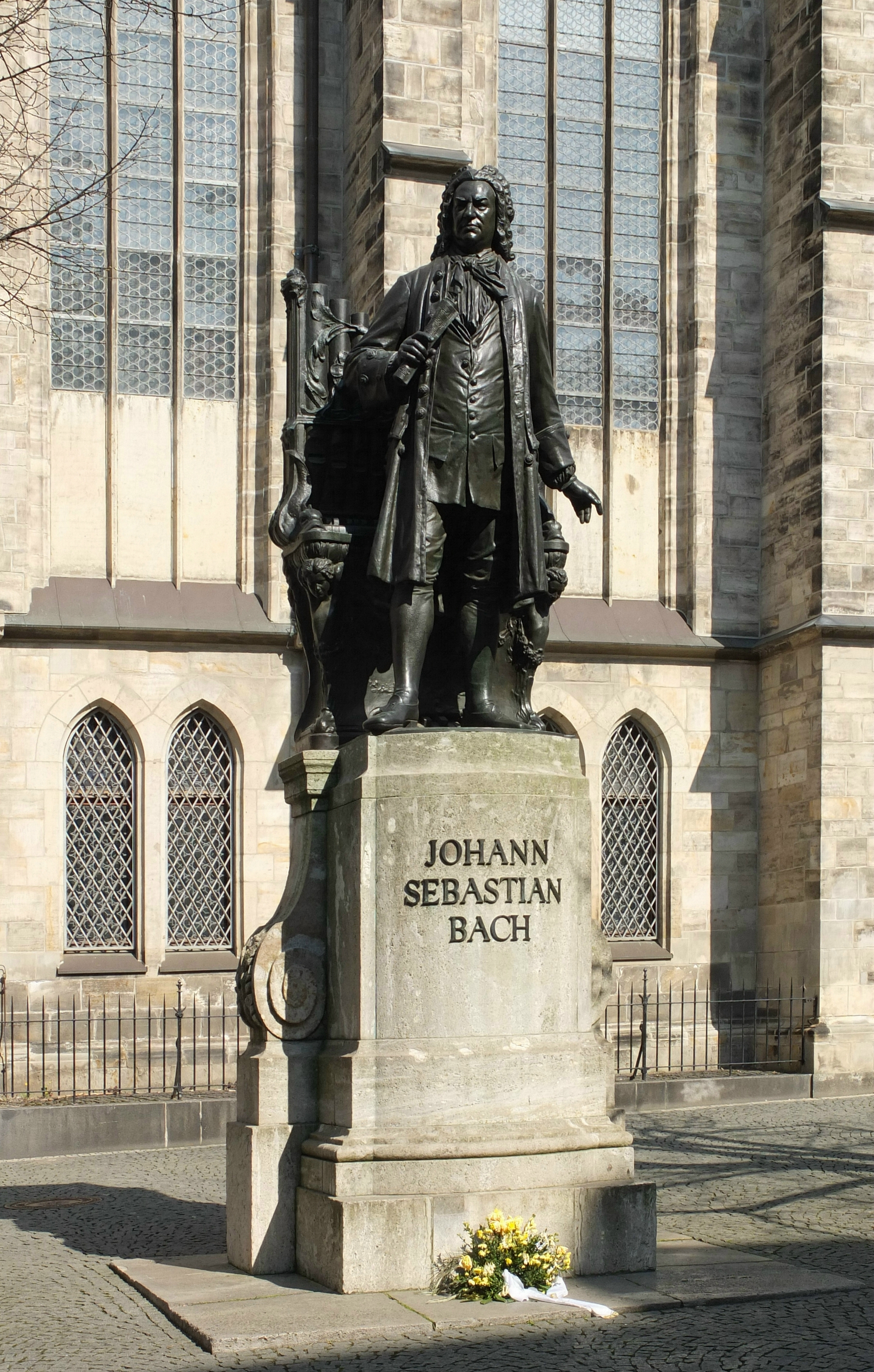 "Neues Bachdenkmal", Leipzig, Germany.